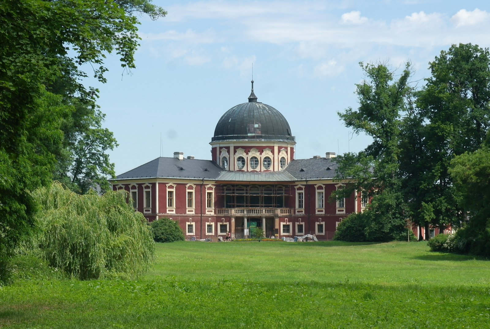 Veltrusy, broque chateau from the begining of 18-th century, whose author is the architect Giovanni Battista Alliprandi